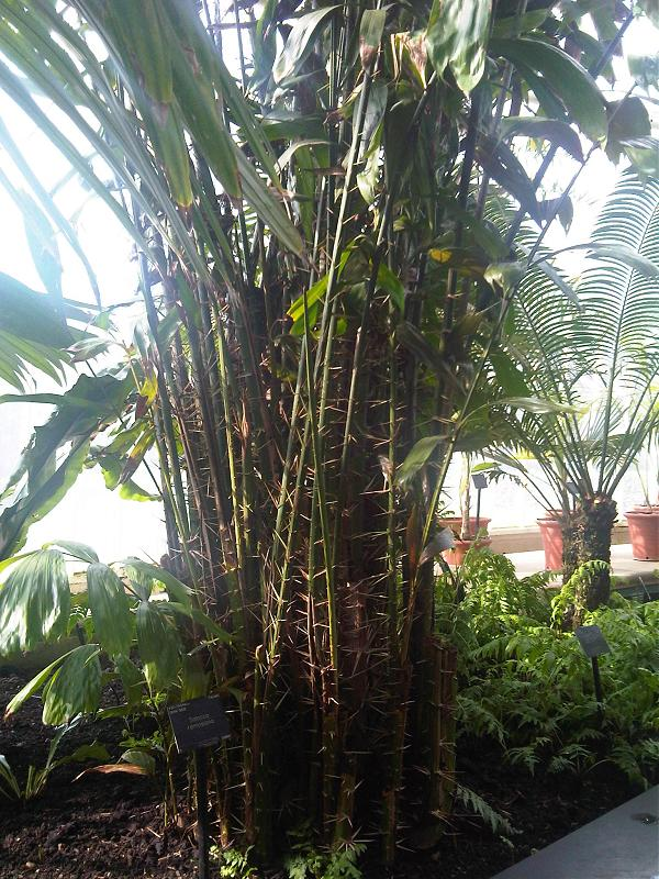 The spiney stems of the Salacca ramosiana in Kew Gardens, England.